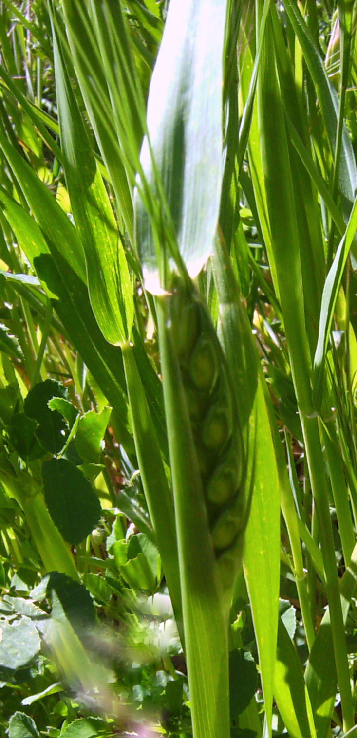 Berded wheat (Triticum aestivium) inmature ear. Castelltallat, Catalonia